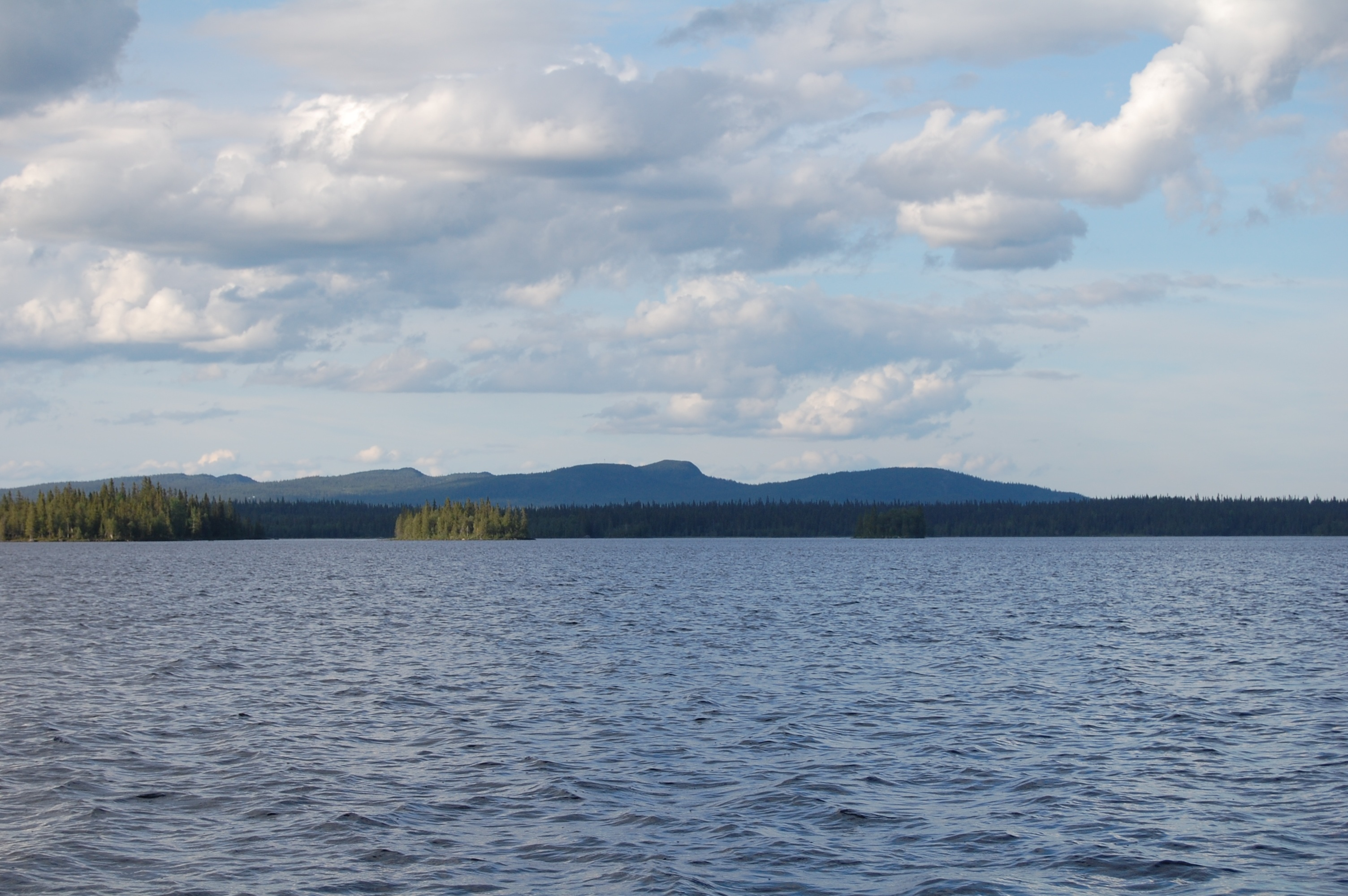 Lake Gardsjön